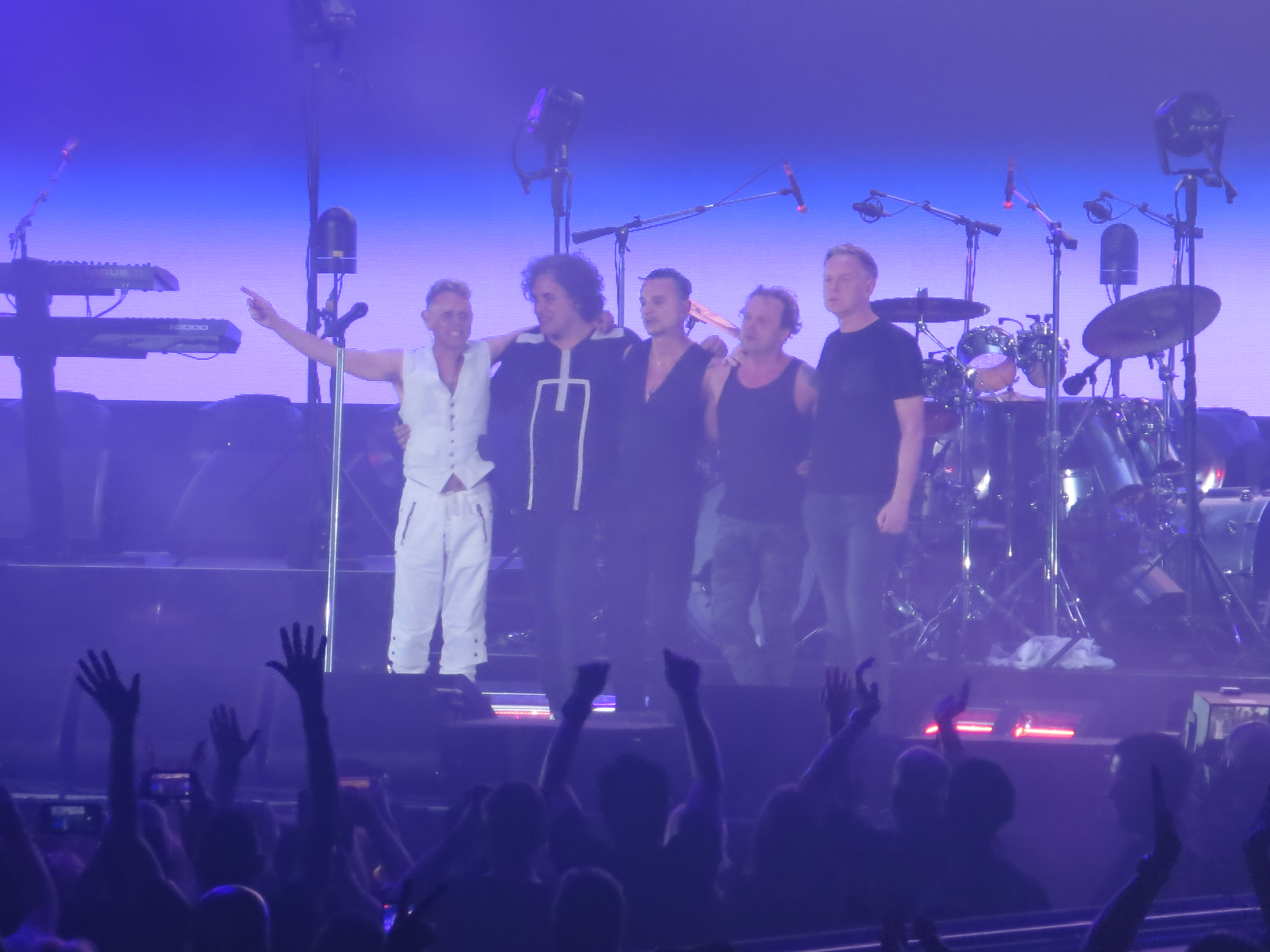 Depeche Mode @ United Center, Chicago 6/1/2018